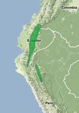 range map for the plain-tailed wren